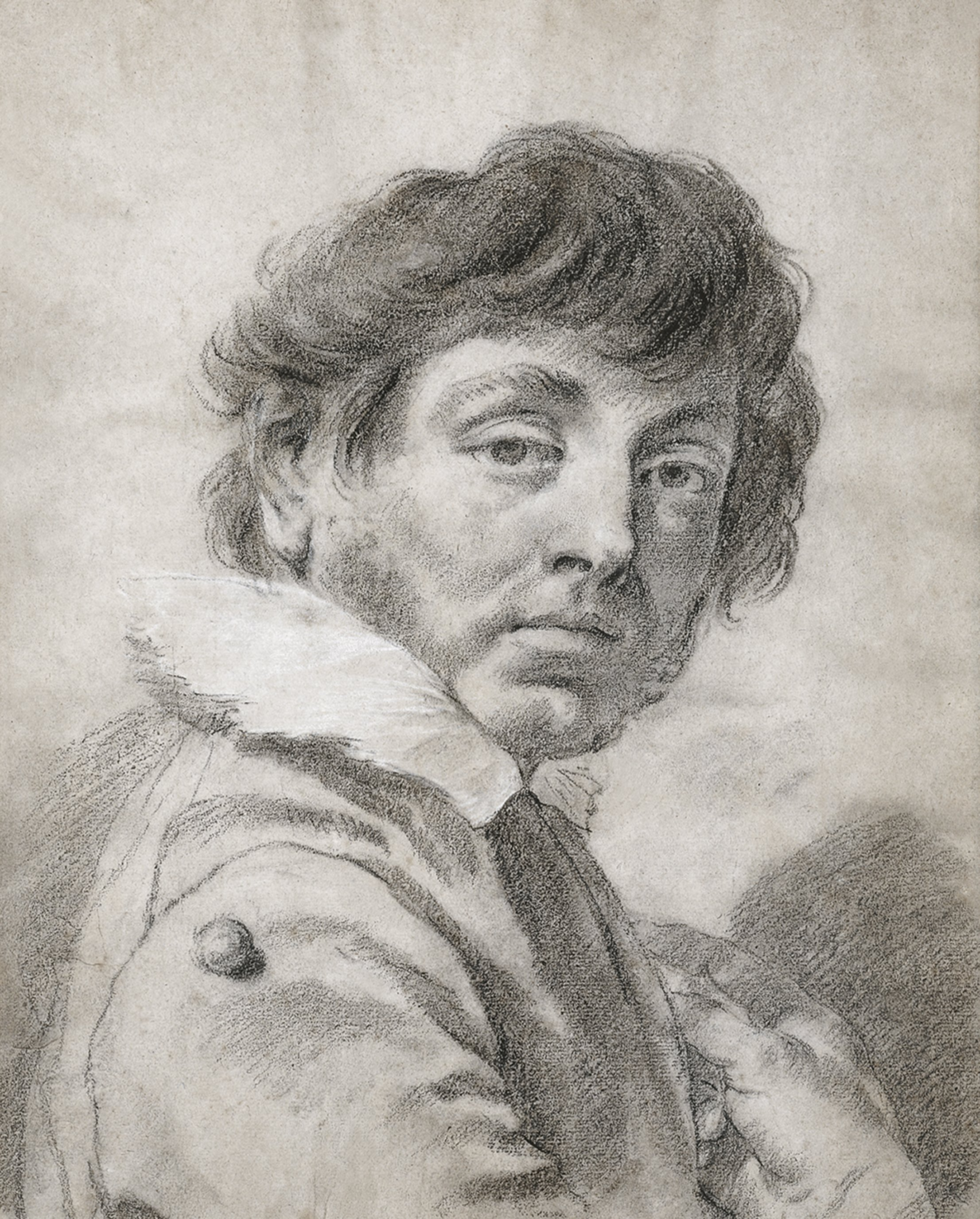 Giambattista Piazzetta charcoal and lead-white on green-grey paper 39.4 x 31.3 cm 1730s